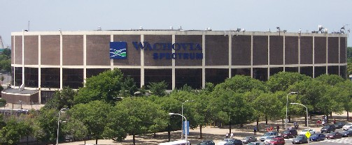 Taken by myself Category:Images of Philadelphia, Pennsylvania